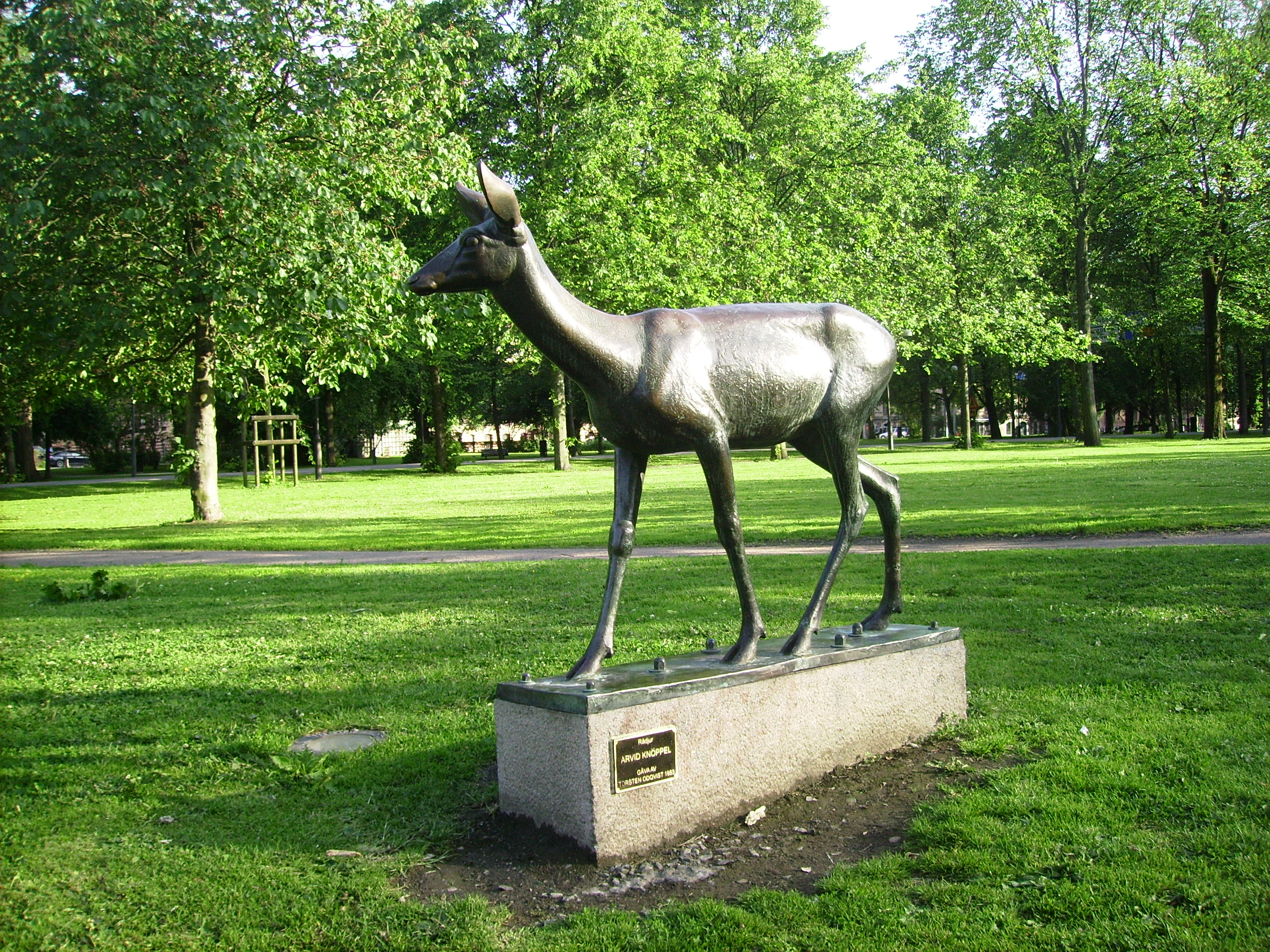 Picture of sculpture of roebuck in Gothenburg